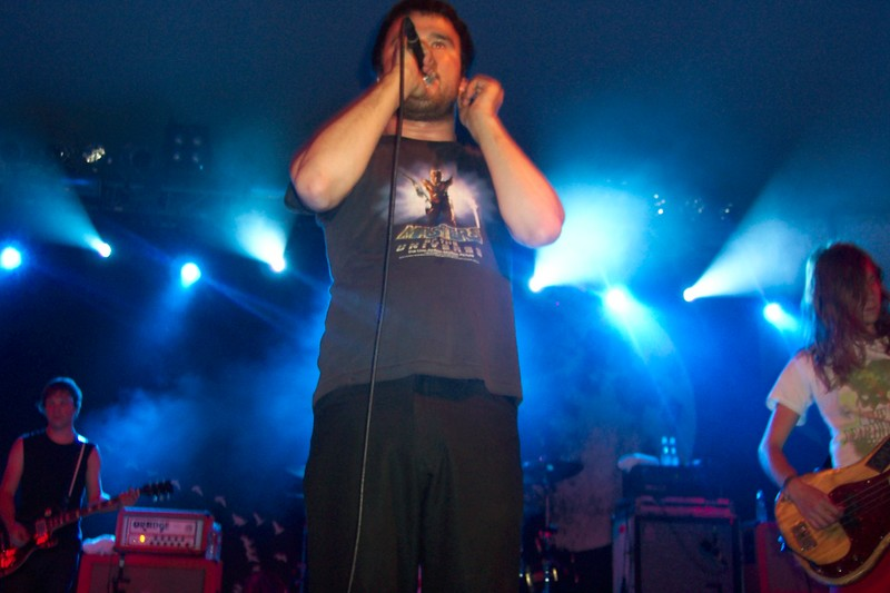 Max, Alex, and one of the Turner brothers at a concert at Syracuse University